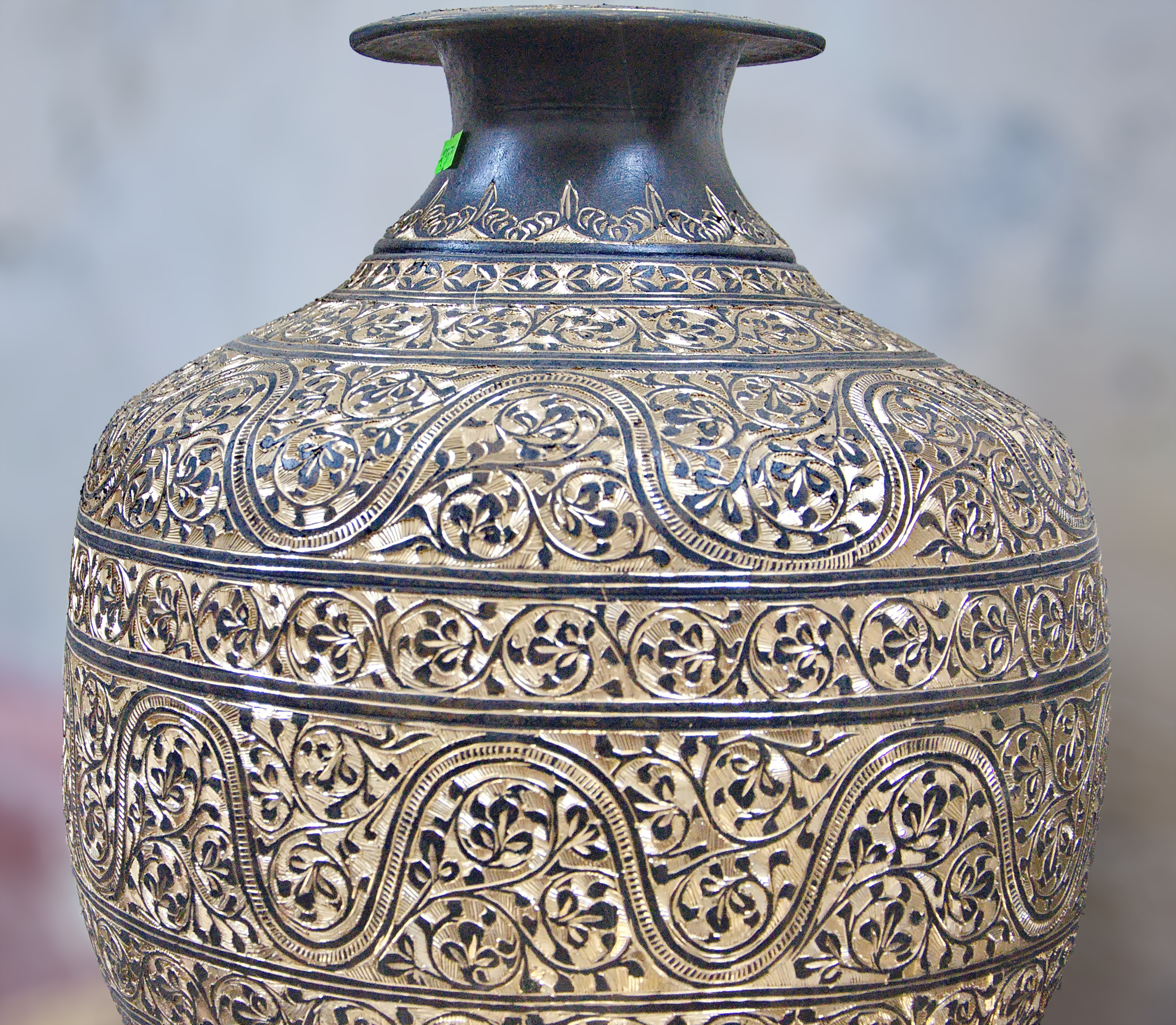 Dhamrai Upazila under Dhaka is renowned for brass work.